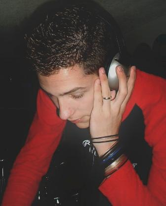 Brian Larsen live in 2006